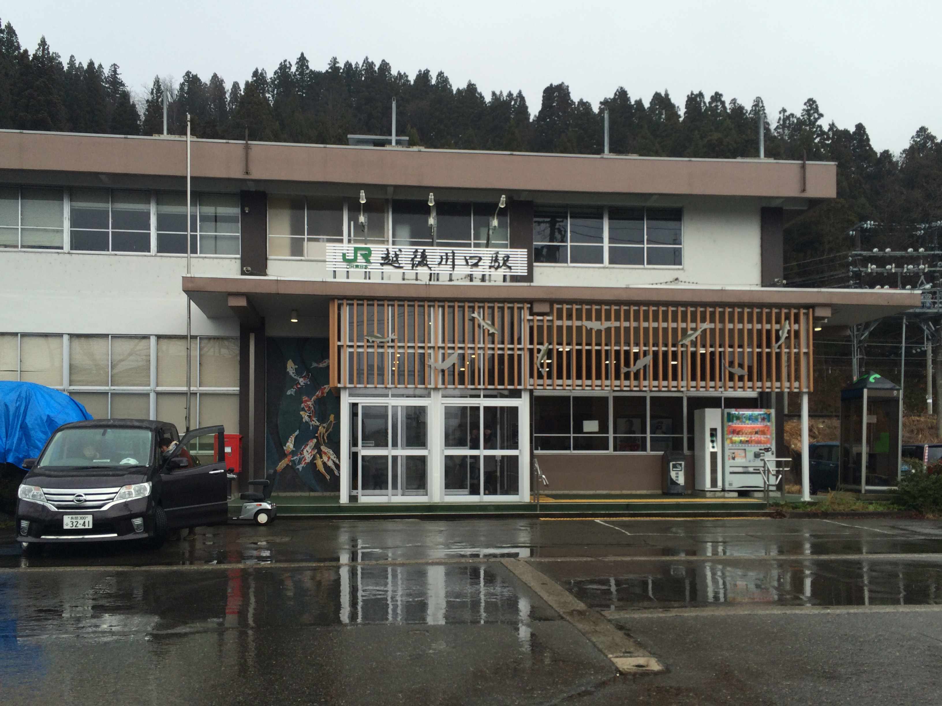 Echigo-Kawaguchi Station after refurbishment